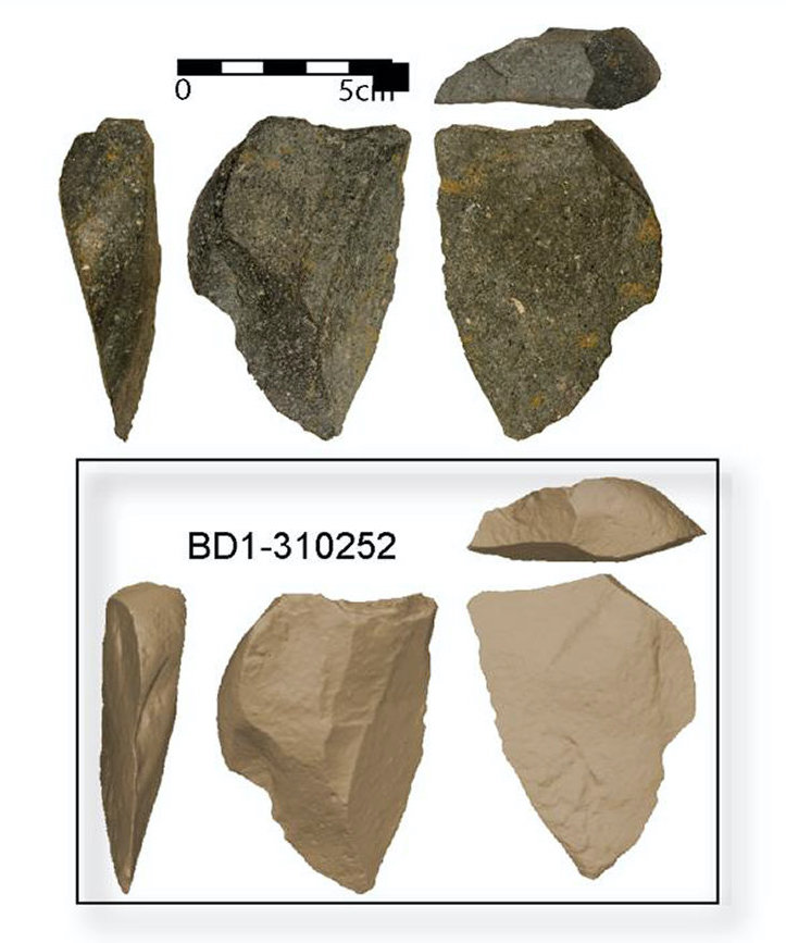 Oldowan tool from Bokol Dora 1, Afar Region, Ethiopia, published in